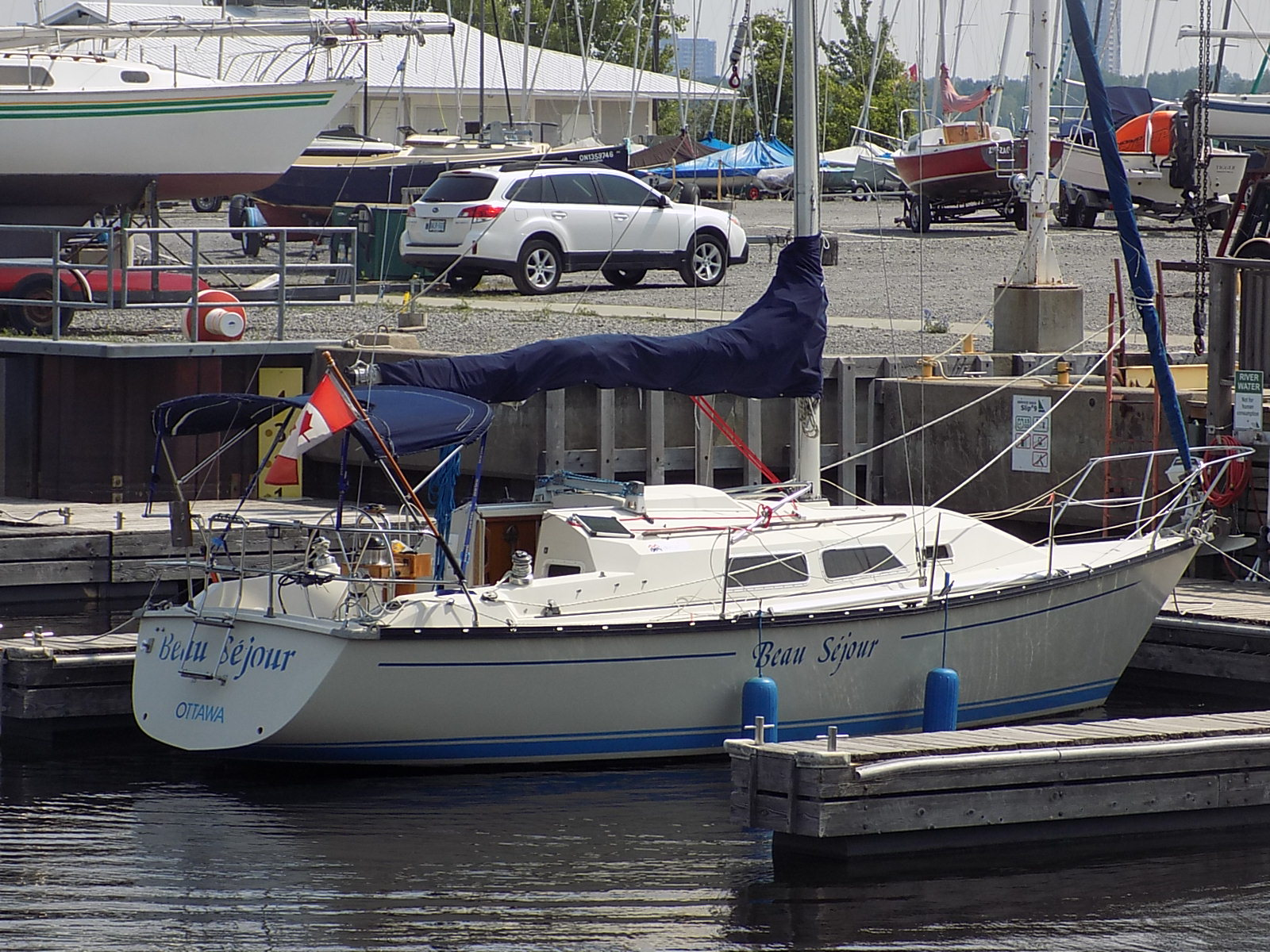 A Mirage 30 sailboat named Beau Sejour.